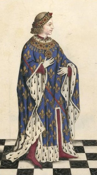 Louis I of Bourbon